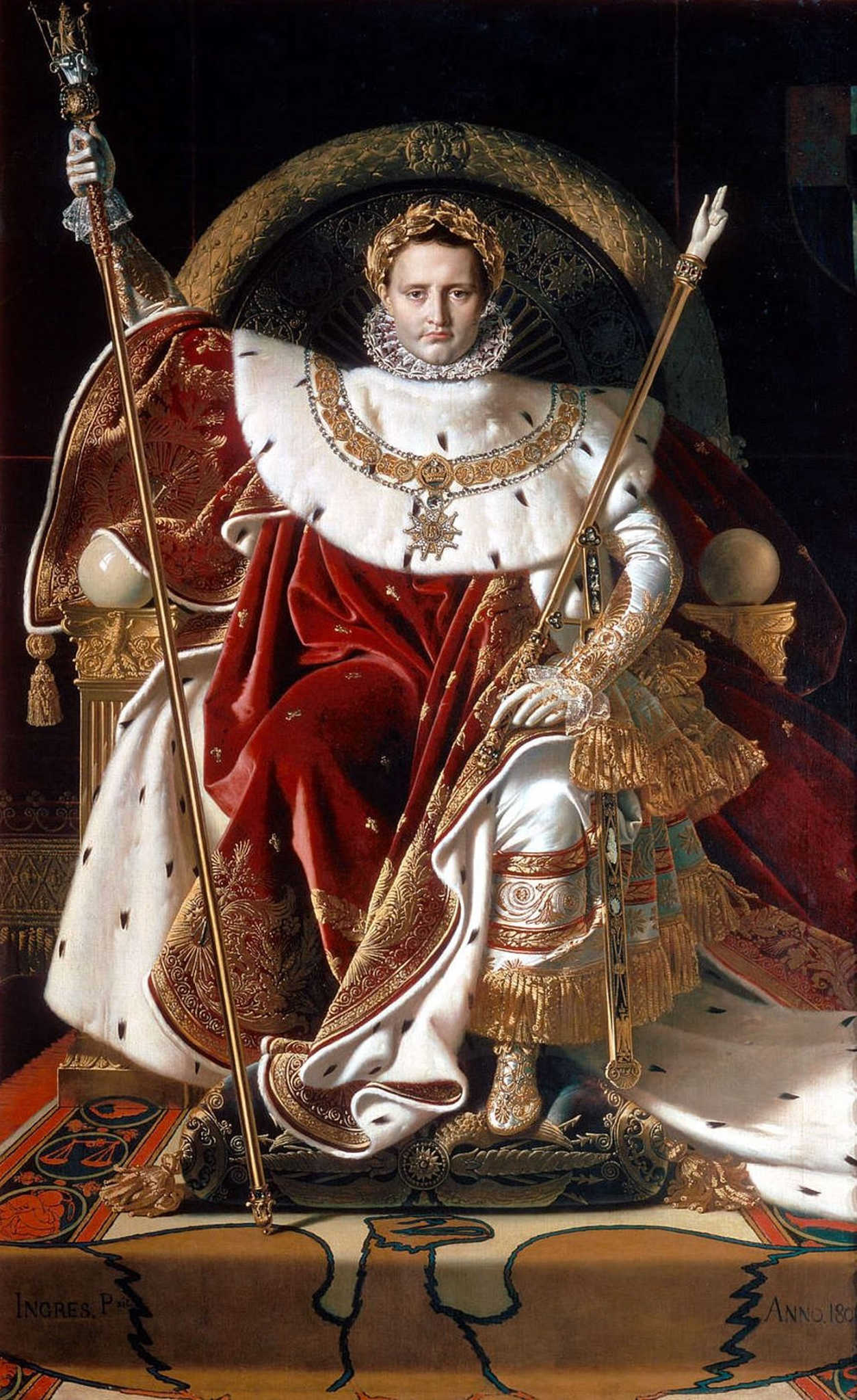 Derived from File:Ingres, Napoleon on his Imperial throne.jpg